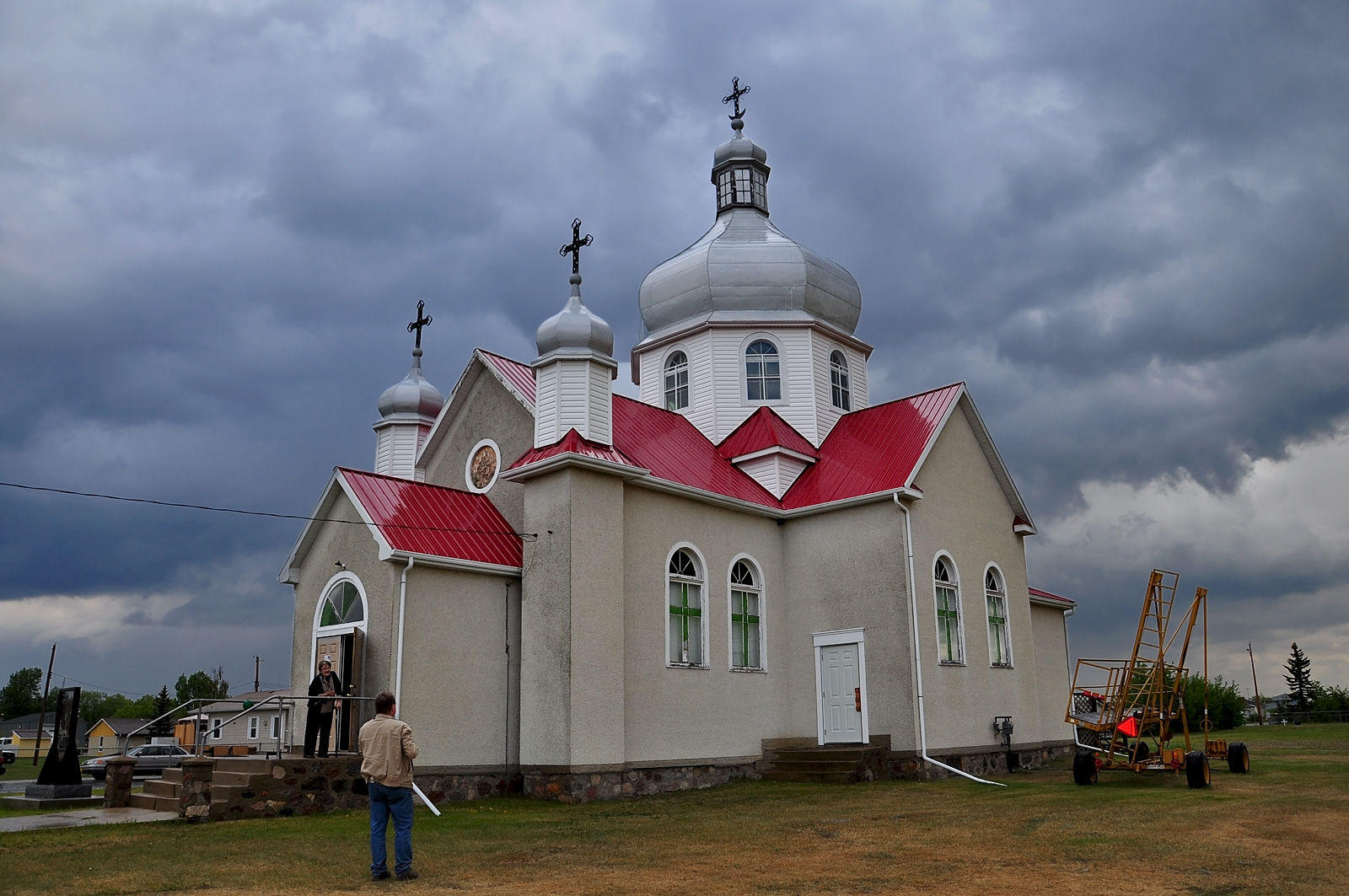 St. Mary's was founded as the Ukrainian Catholic Church Parish in 1901 about two miles east of Chipman, and a split occurred within the congregation in 1915. This three domed Byzantine style church was constructed for those who were committed to remain Ukrainian Catholic. The Iconostasis was built by Phillip Pawliuk of Lamont in 1922, and painted by Peter Lipinski, (1888-1975) Peter Lipinski was probably the most prolific church artist in Alberta, having painted nearly 50 churches during his lifetime. In 1928, he painted the iconostasis, as well as adorning the church with a wealth of religious pictures, and traditional borders. He adorned the dome with angels and brilliant stars and today only the angels endure unaltered, as the stars had faded, and have been repainted.